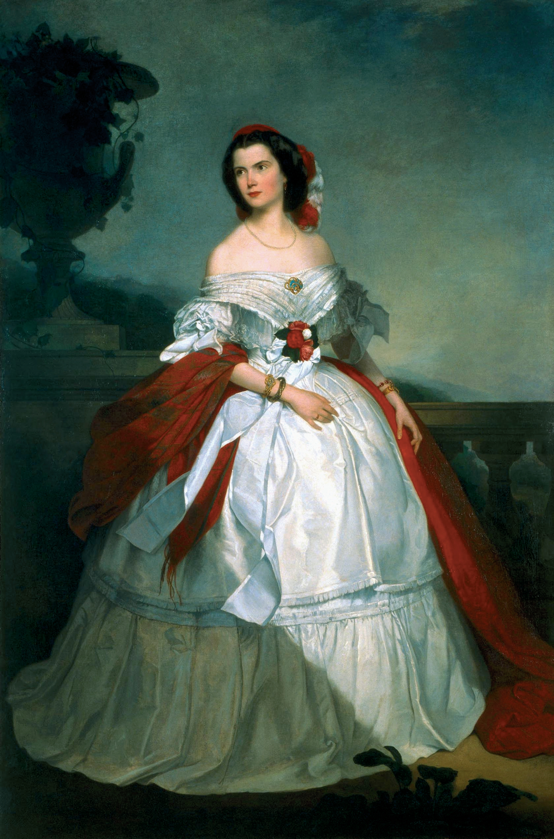 Portrait of Carlota, Viscountess of Menezes (1841-1877), by her husband.